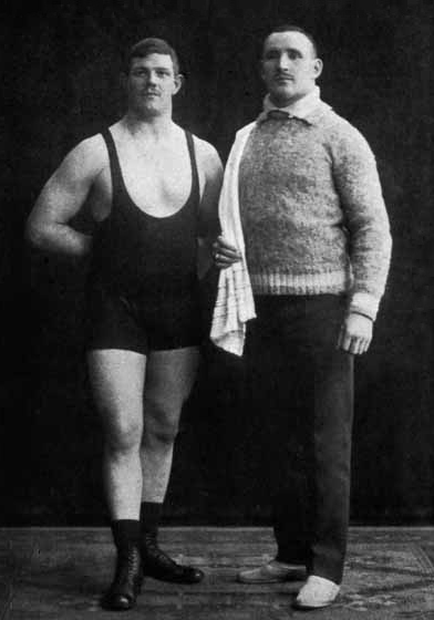 Anders Ahlgren with coach Ivar Tuomisti in Malmö, Sweden